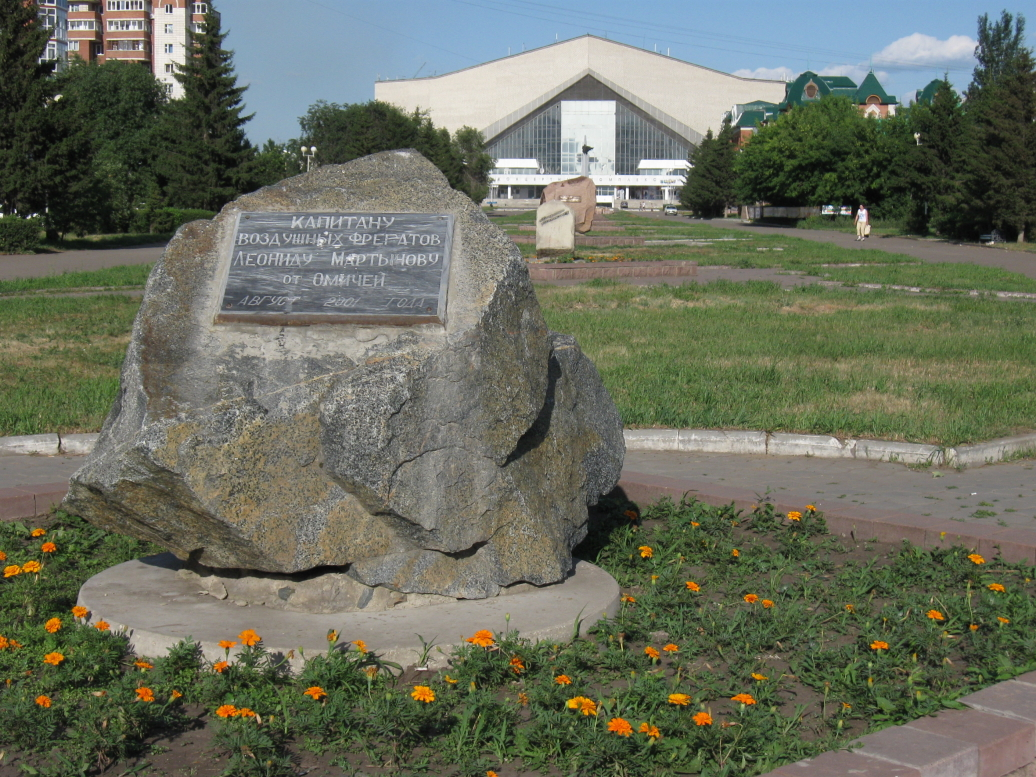 Memorial stone to Great Russian poet Leonid Martynov (Omsk, Russia).